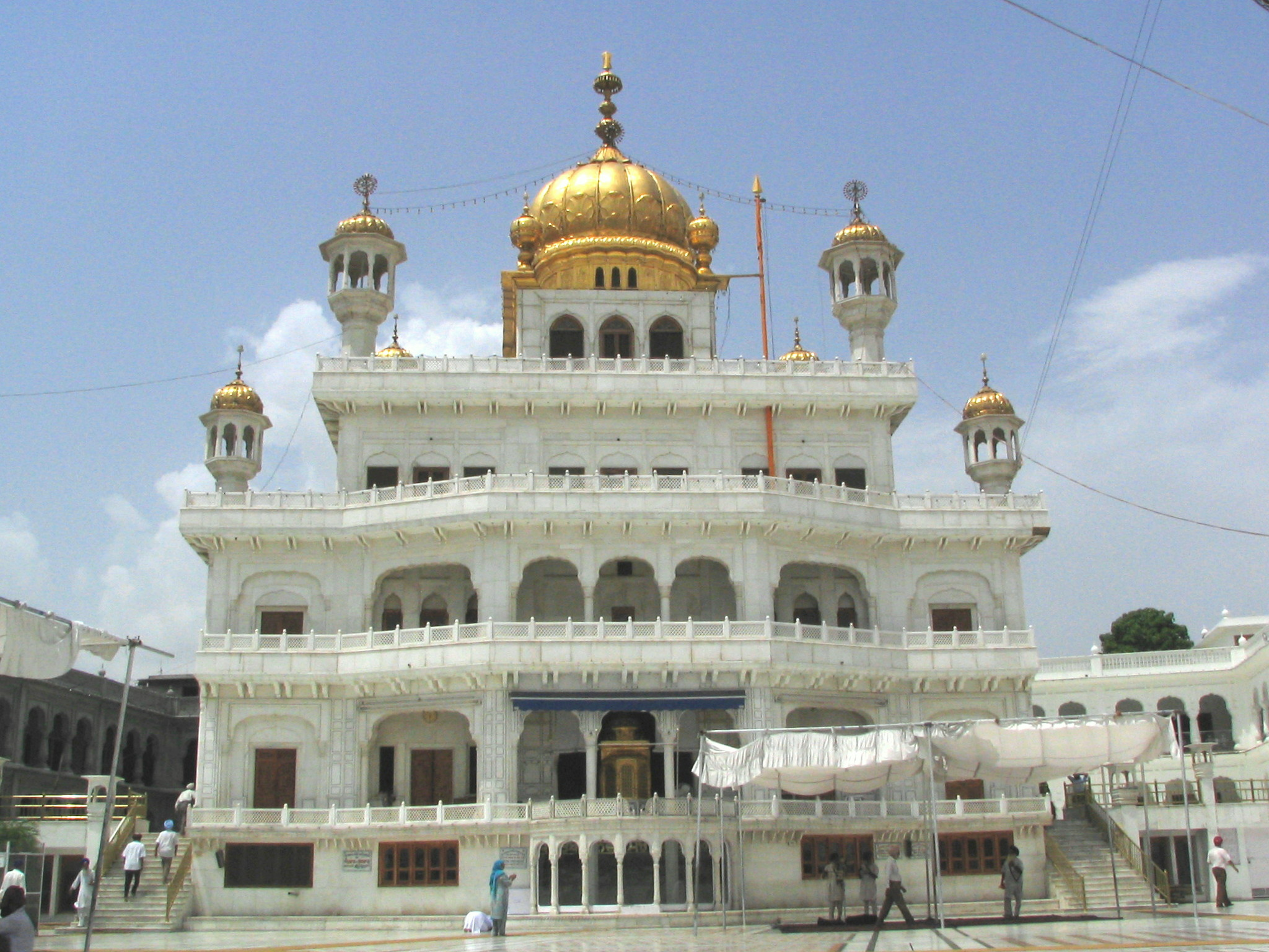 Akal Takhat Sahib at Golden Temple Complex. The Supreme place from where all important decesions (by SGPC) related to Sikhism are issued.